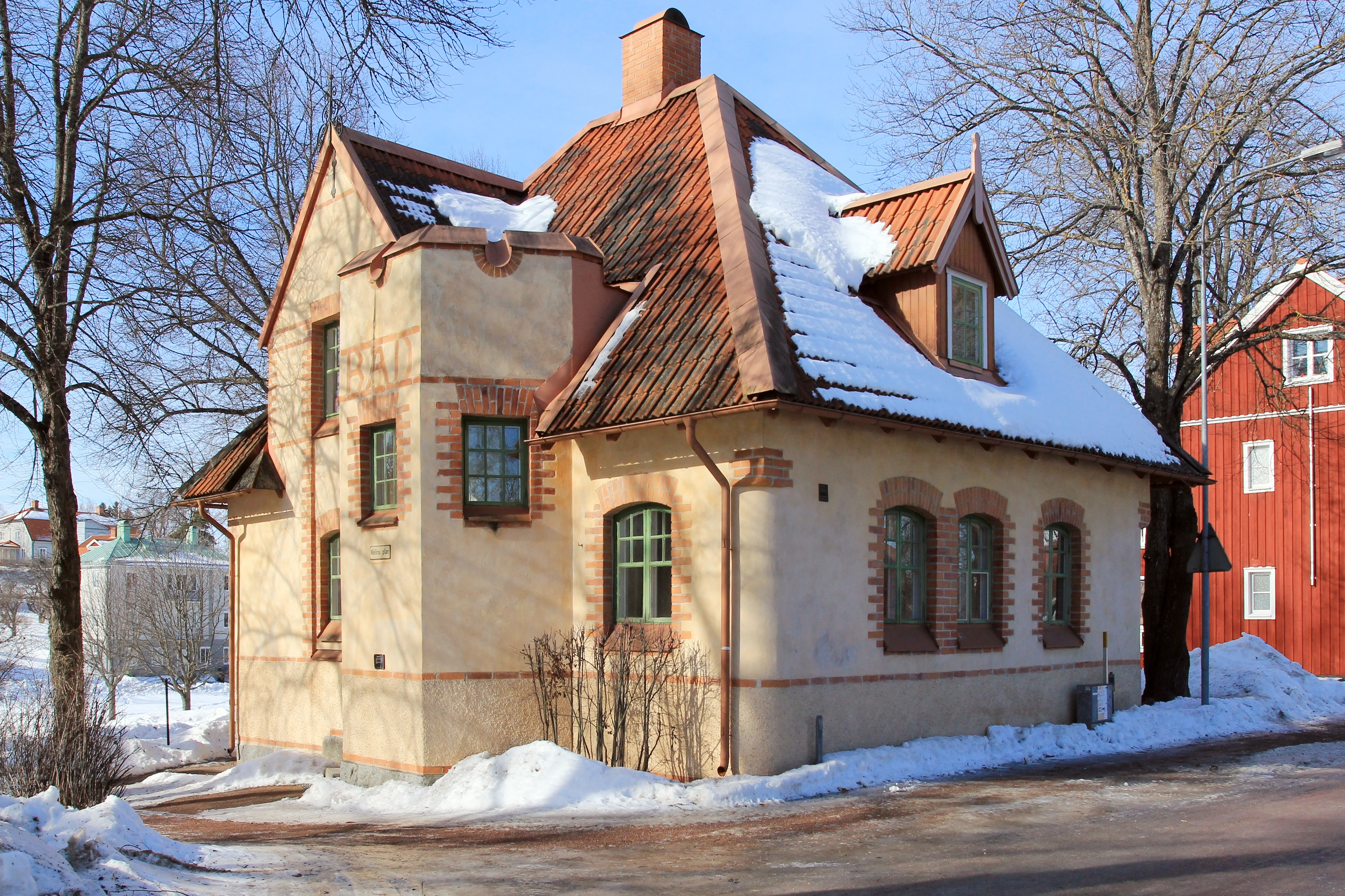 "Wahlmanska huset", former bath house in Hedemora, Sweden. Architect: Lars Israel Wahlman. Now an art gallery.